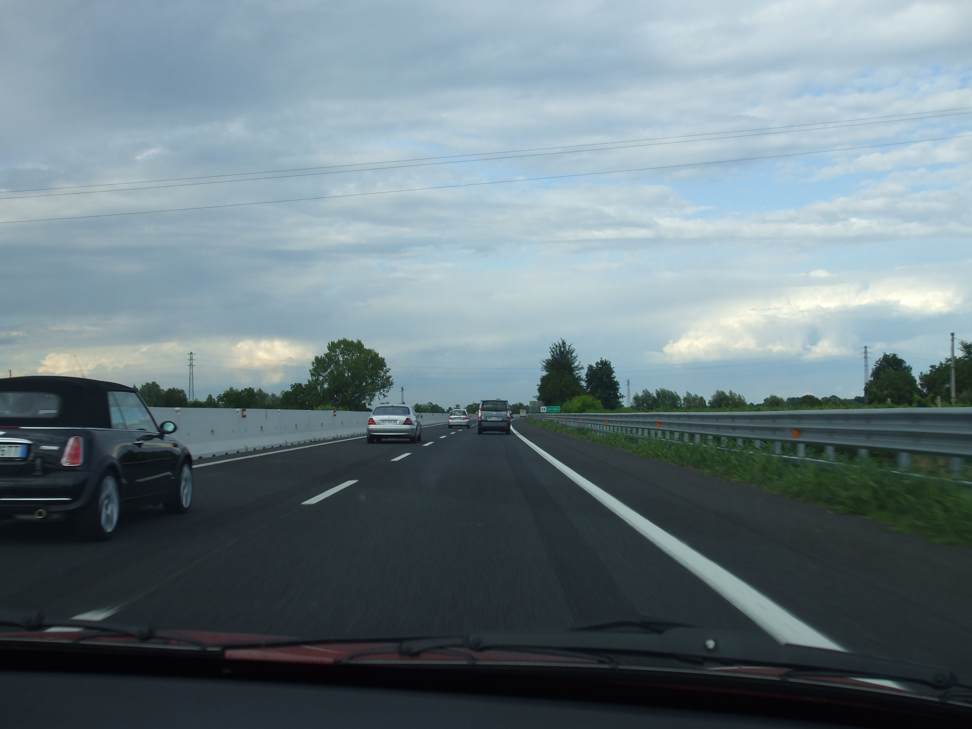 Motorway A4, Italy